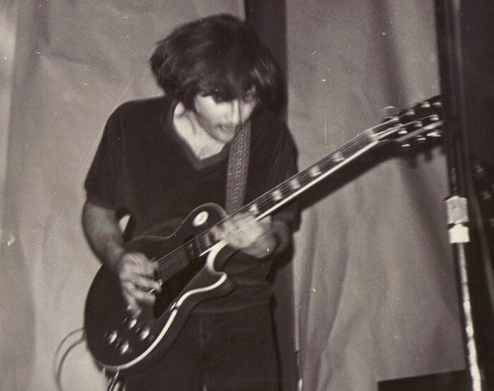 Stoneground Lead Guitar, Tim Barnes w/ Craigs 1966 L/P gold-top